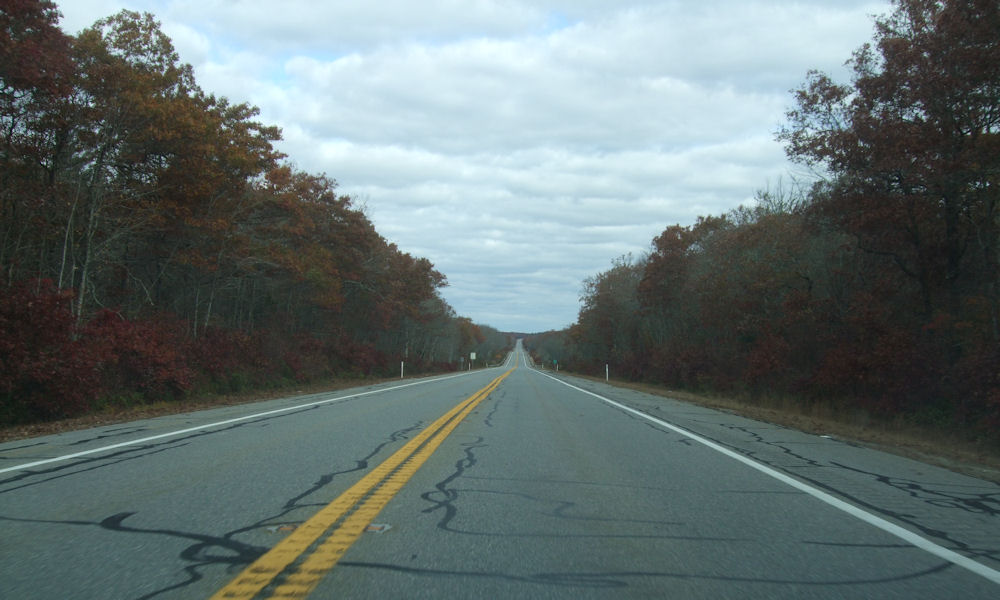 Massachusetts Route 88 at approximately Mile Marker 2.